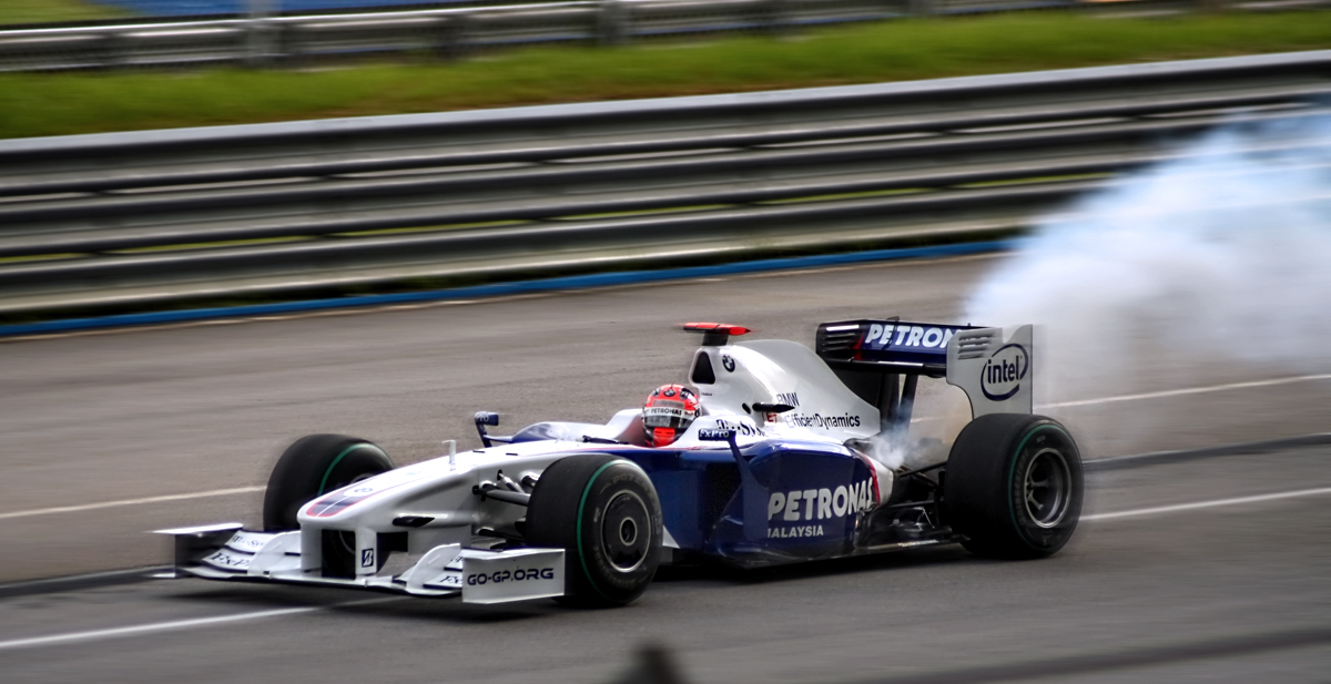 Robert Kubica at 2009 Malaysian Grand Prix, Sepang, Malaysia.